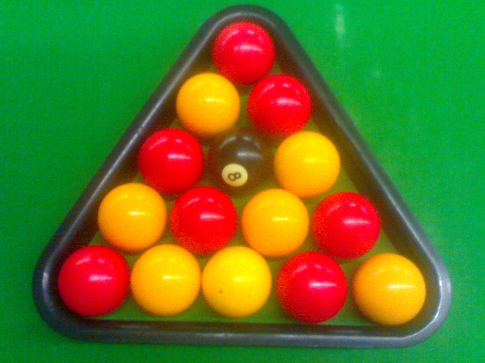 I took this Photo myself.